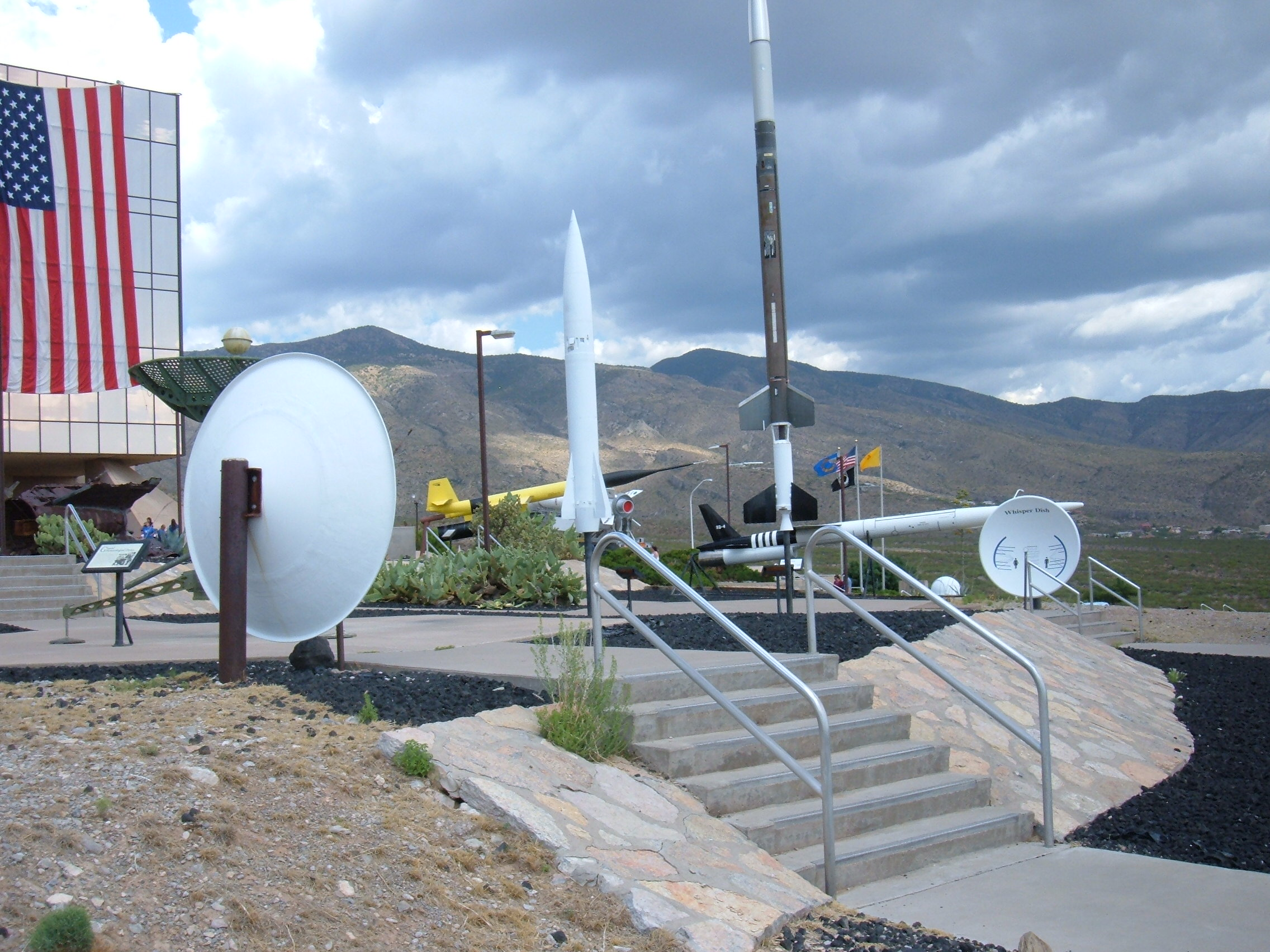 A pair of parabolic whisper dishes (acoustic mirrors), located at the Mexico Museum of Space History, Alamogordo, New Mexico. When a person stands at the focus of one dish and whispers, the sound can be heard by a person standing at the focus of the other dish, over a hundred of feet away.